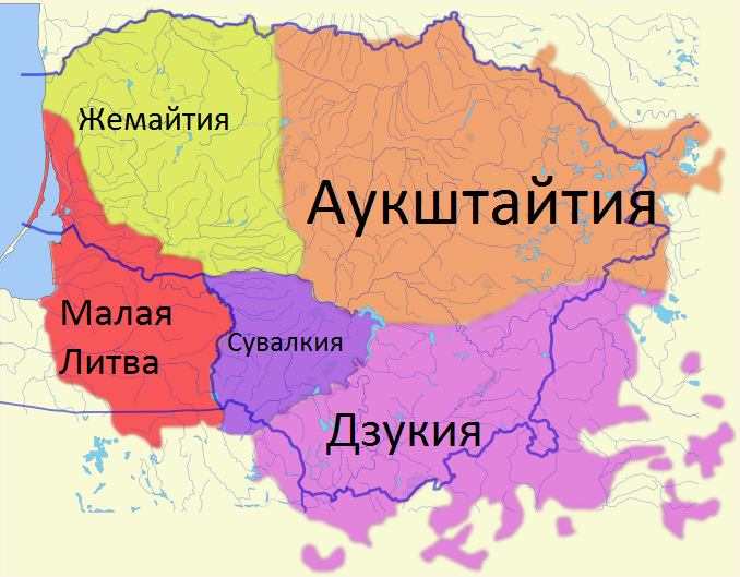 Etnographic regions of Lithuania